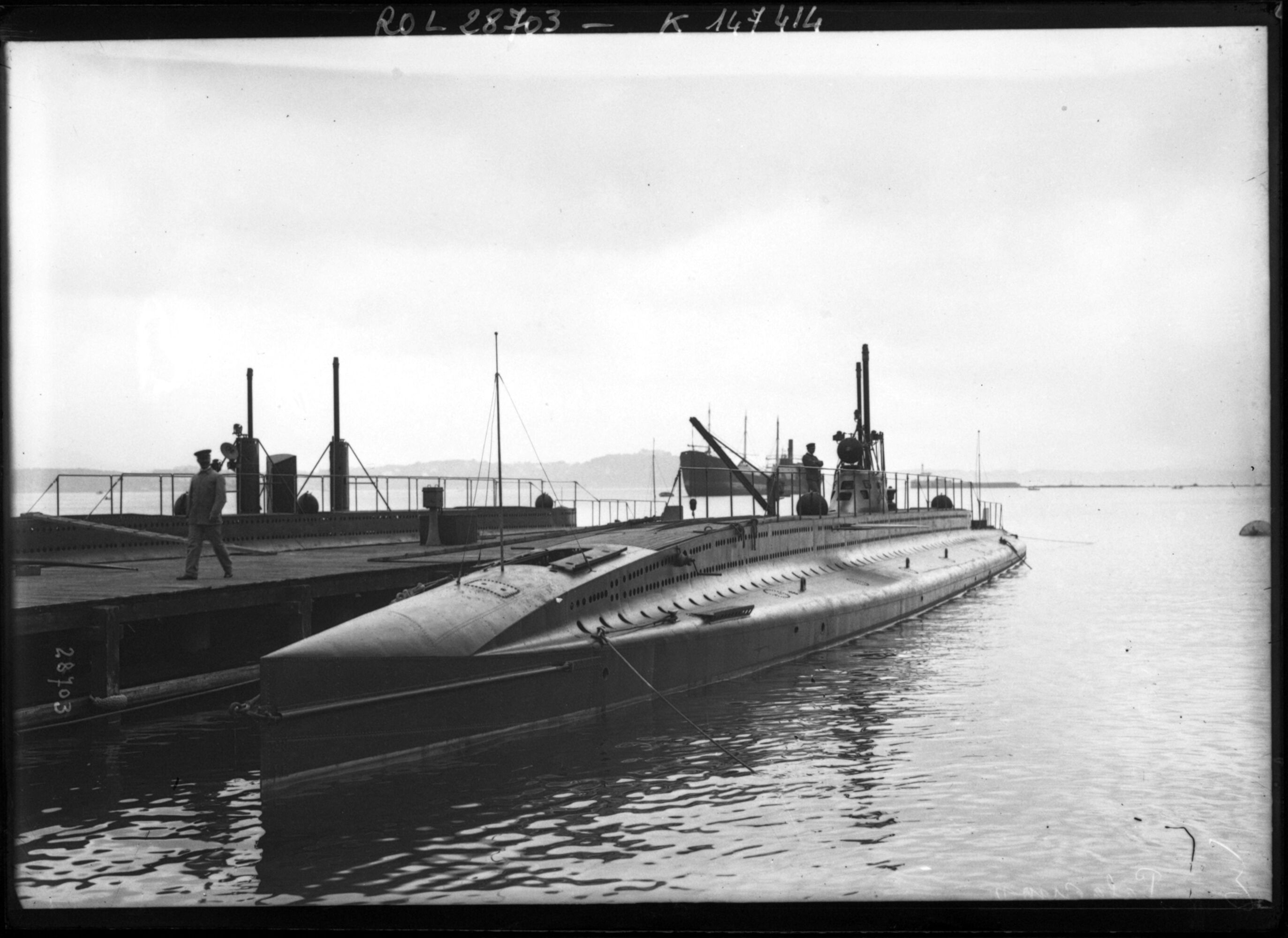 Palacios dans le port de Toulon, sous-marin livré à la marine péruvienne en 1913] : [photographie de presse] / [Agence Rol]